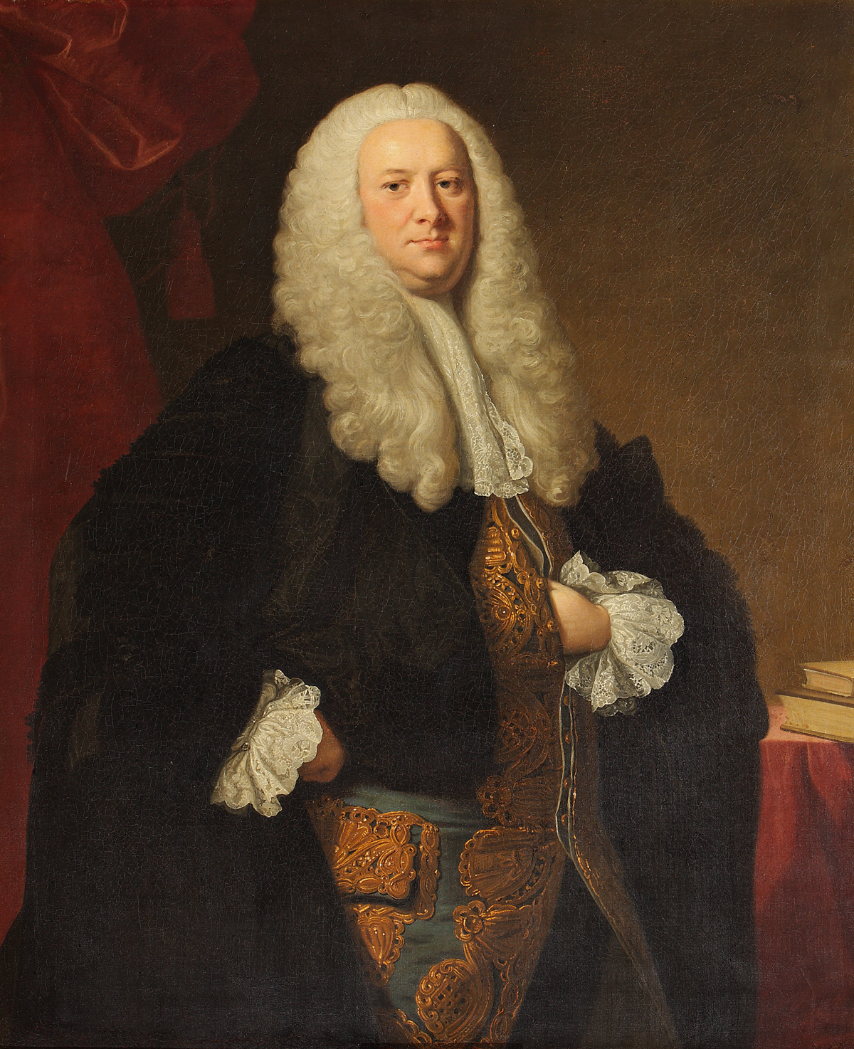 Portrait of William Noel (1695–1762), English barrister, judge and politician.